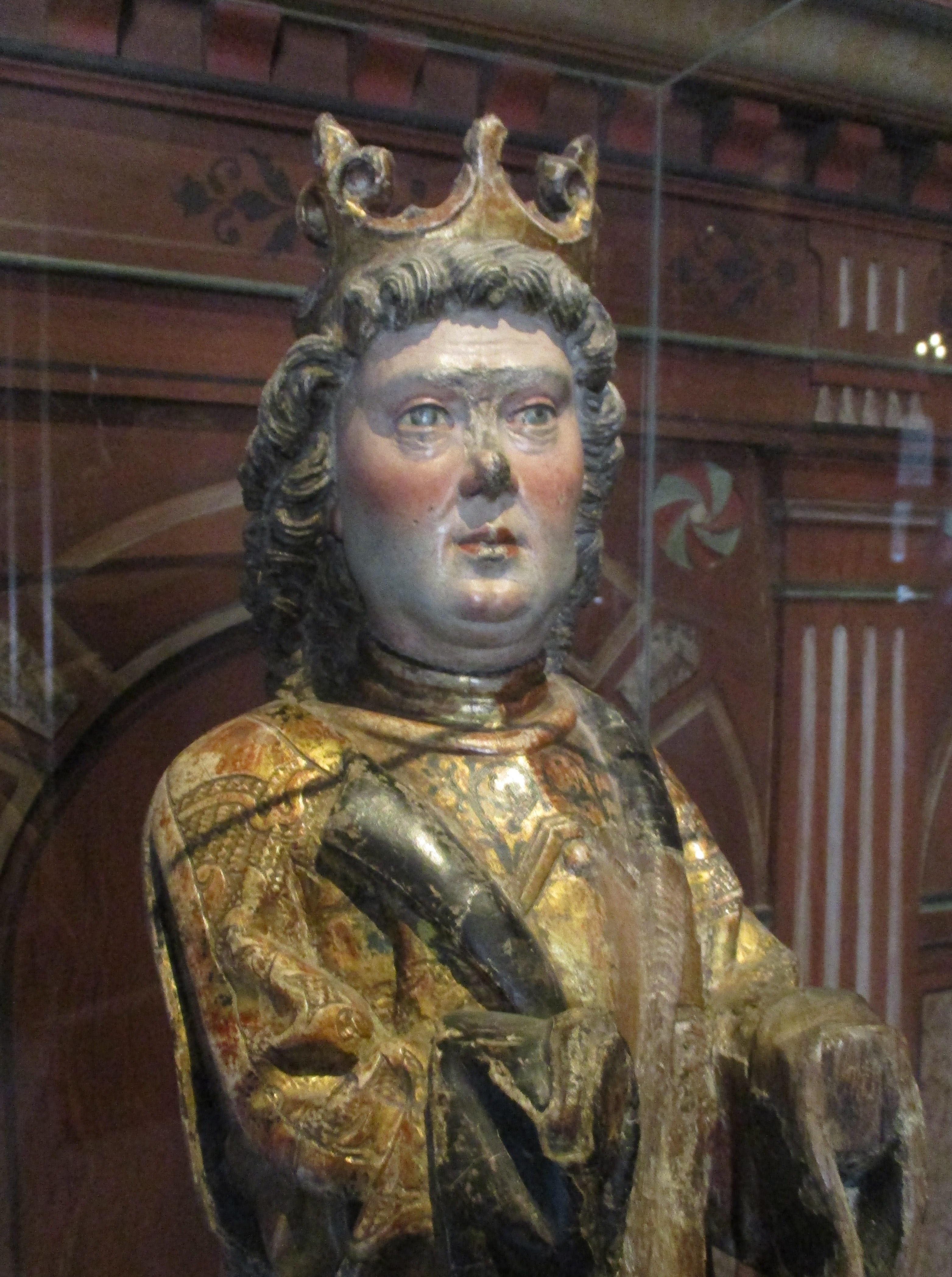 King Carl II (VIII[sic] Knutsson Bonde) of Sweden, Carl I of Norway, as sculpted in the 1480’s by Bernt NotkePlace: Gripsholm Castle, Sweden